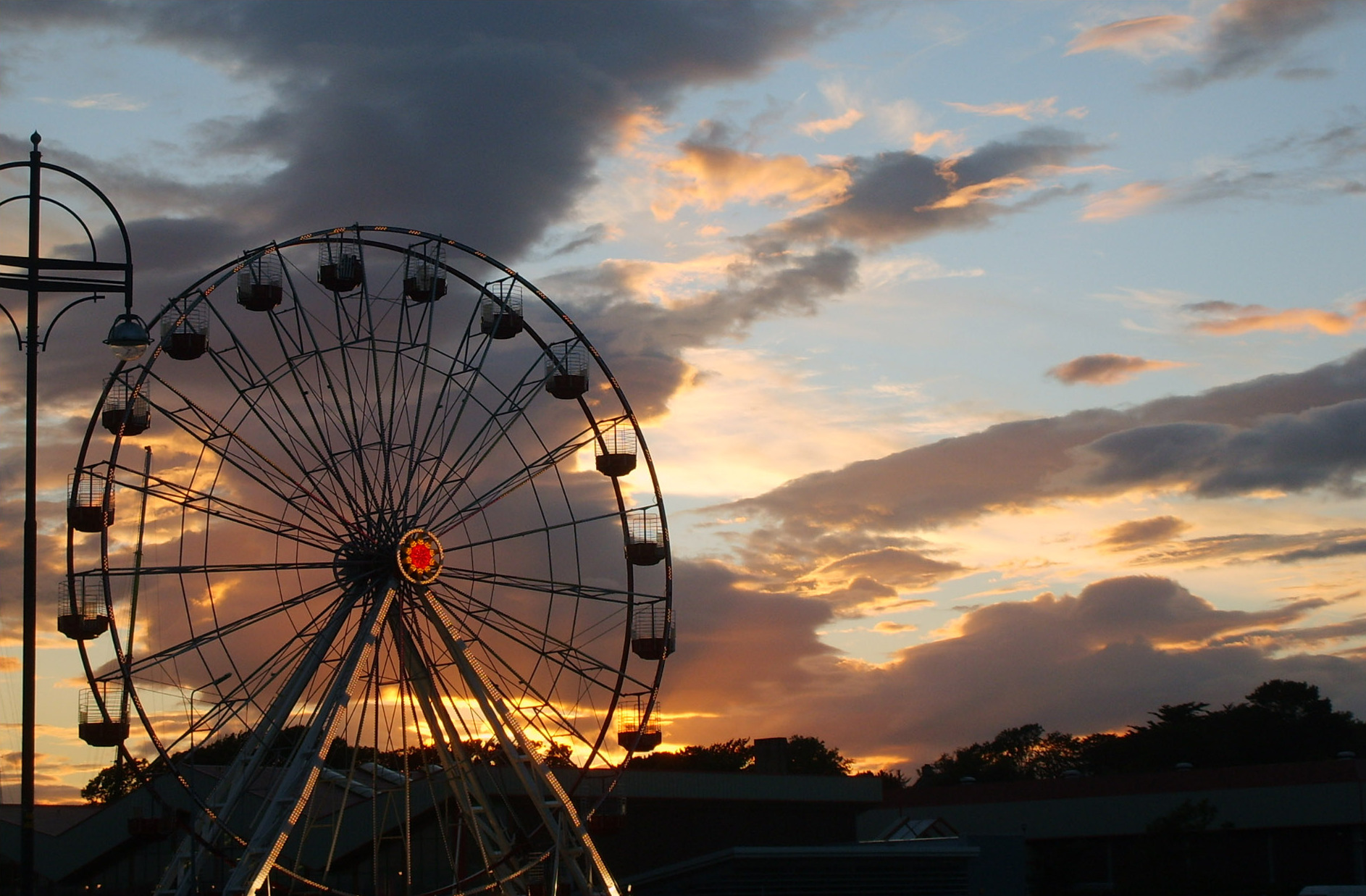 Image of Ferris Wheel at Leisureland complex Salthill Galway Ireland